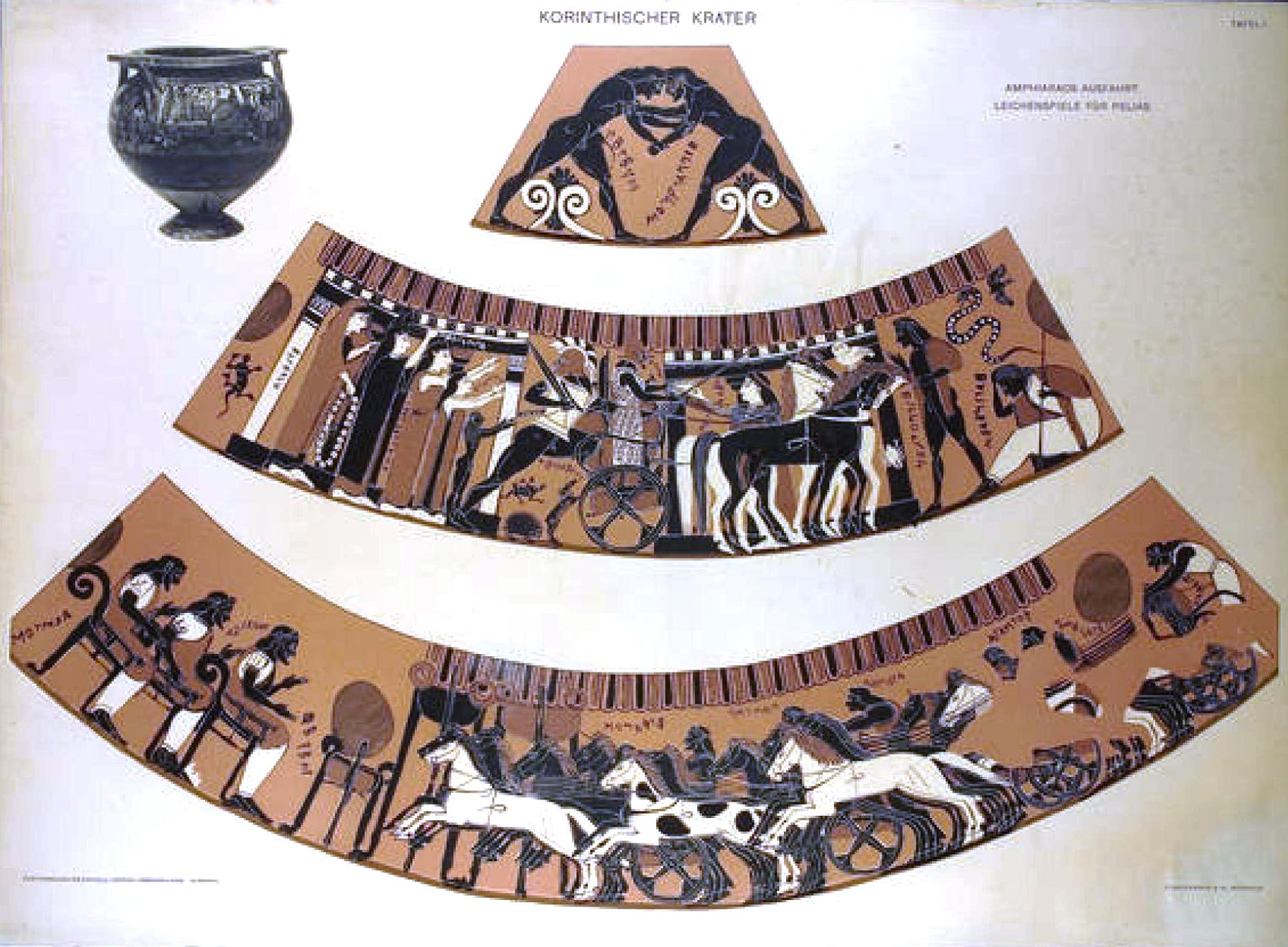 Side A: a frieze of horsemen and above it the departure of Amphiaraos. Side B: a frieze with hoplites in battle and above it funeral games for Pelias (chariot race). Wrestlers under left handle.